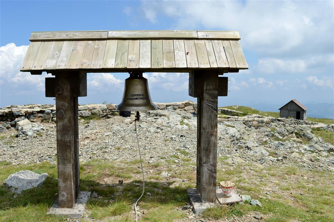 Raska Municipality - Kopaonik